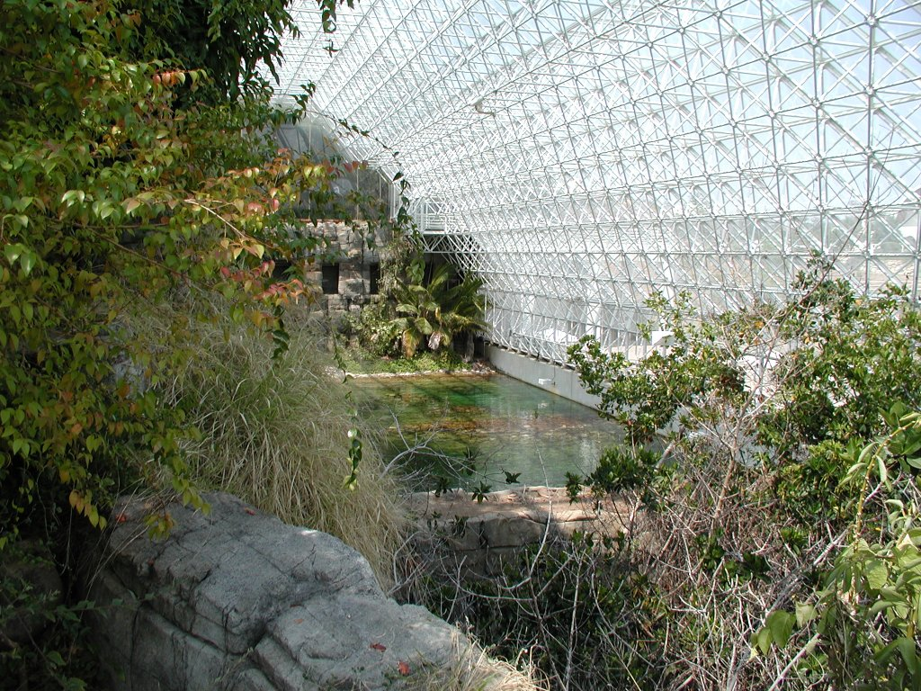 Biosphere 2 from the inside, half the original size.